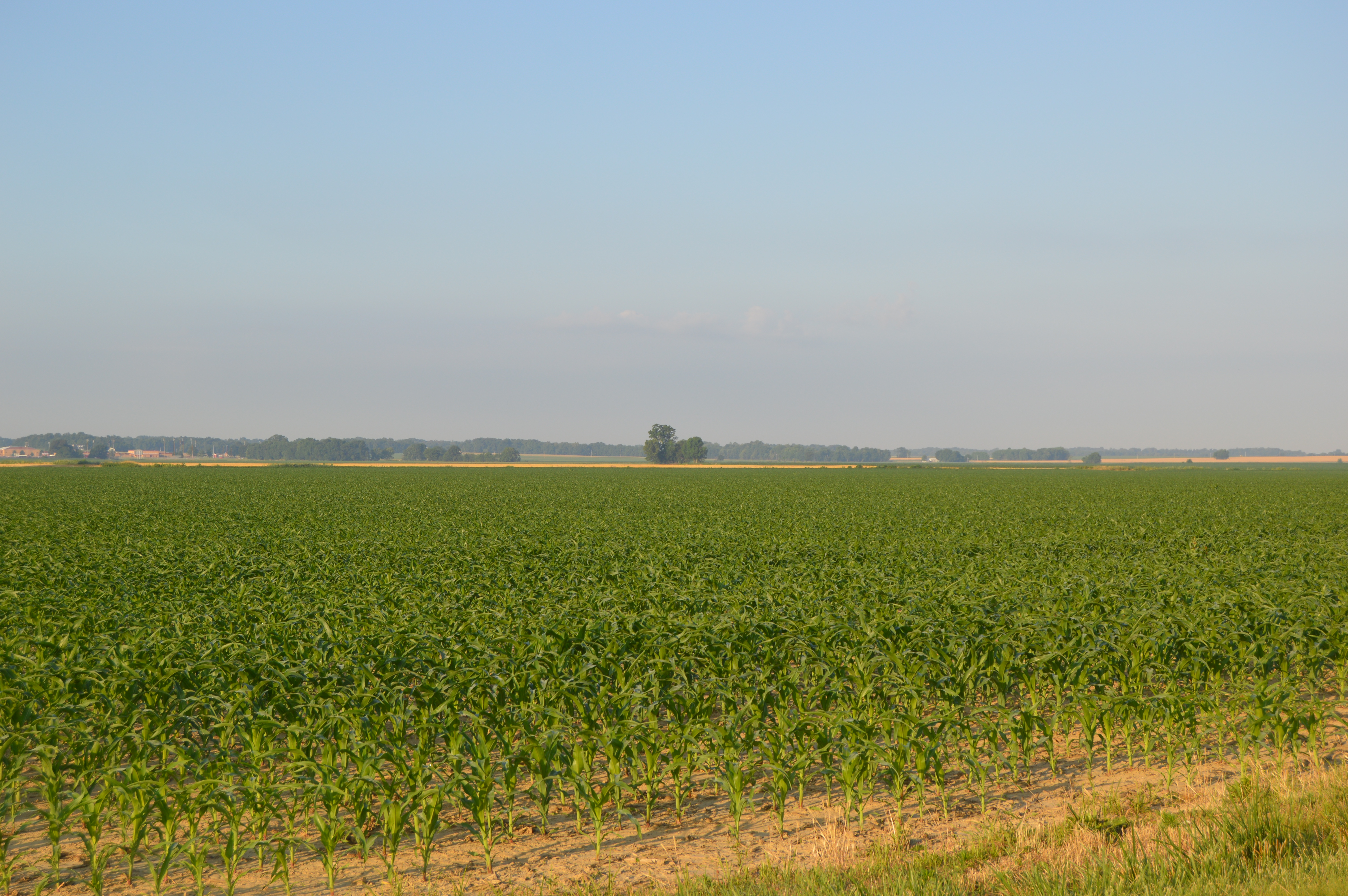 Fields on the southern side of State Road 68 just southwest of Poseyville in Robb Township, Posey County, Indiana, United States.